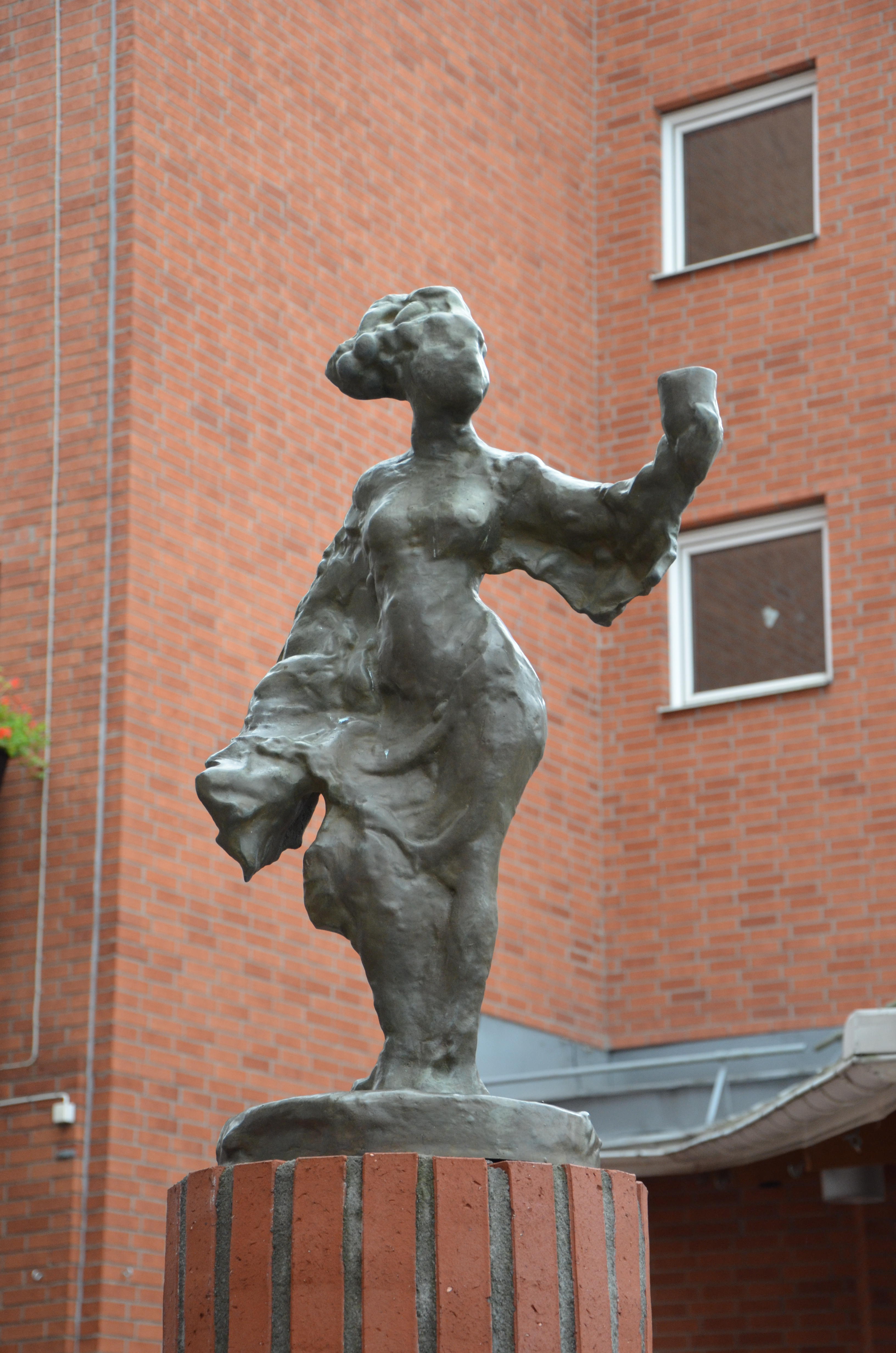 Peter Dahls Freja på Sjödalstorget i Huddinge centrum